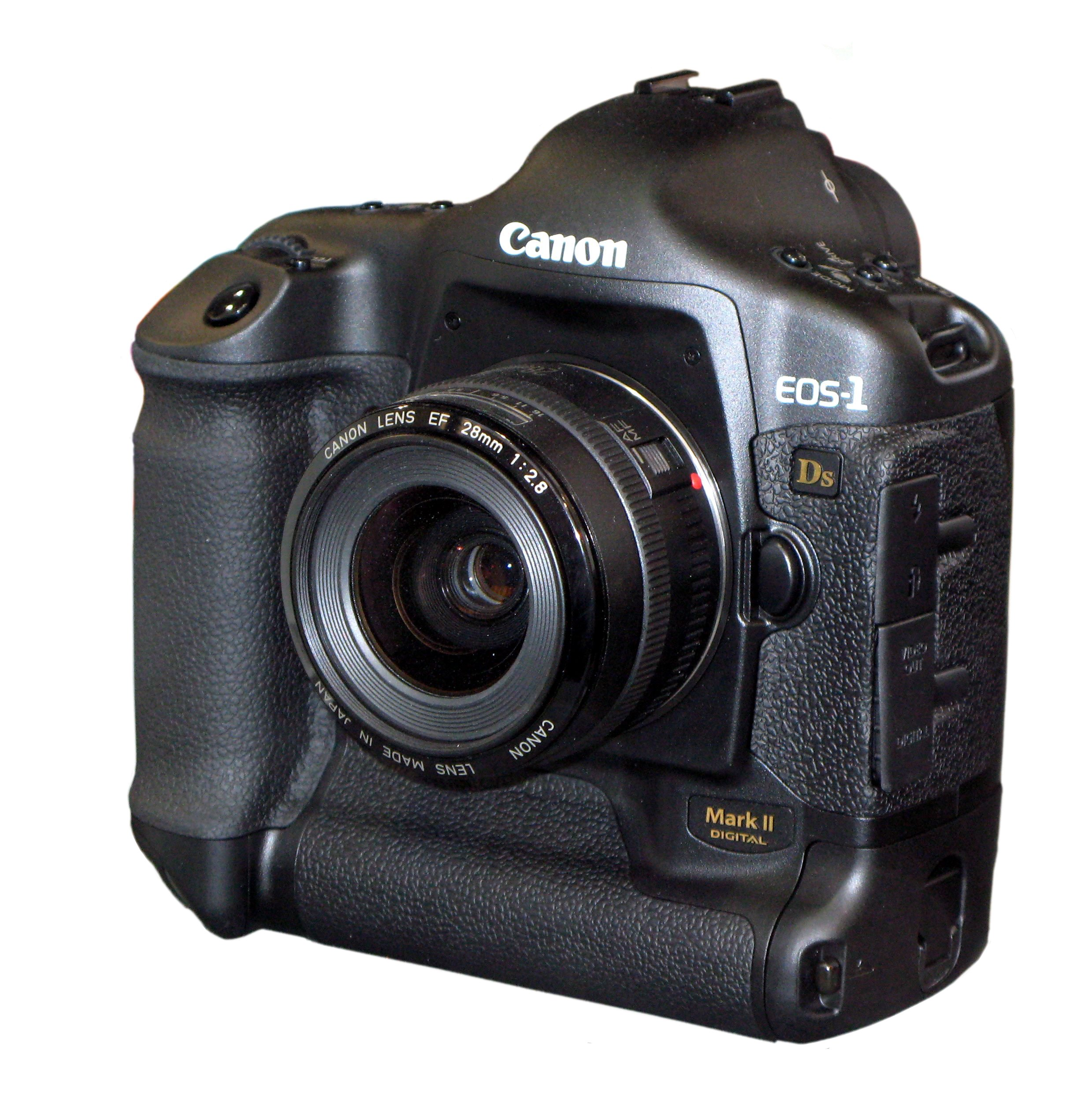 Canon EOS-1Ds Mark II digital SLR camera with Canon EF 28 mm f/2.8 lens